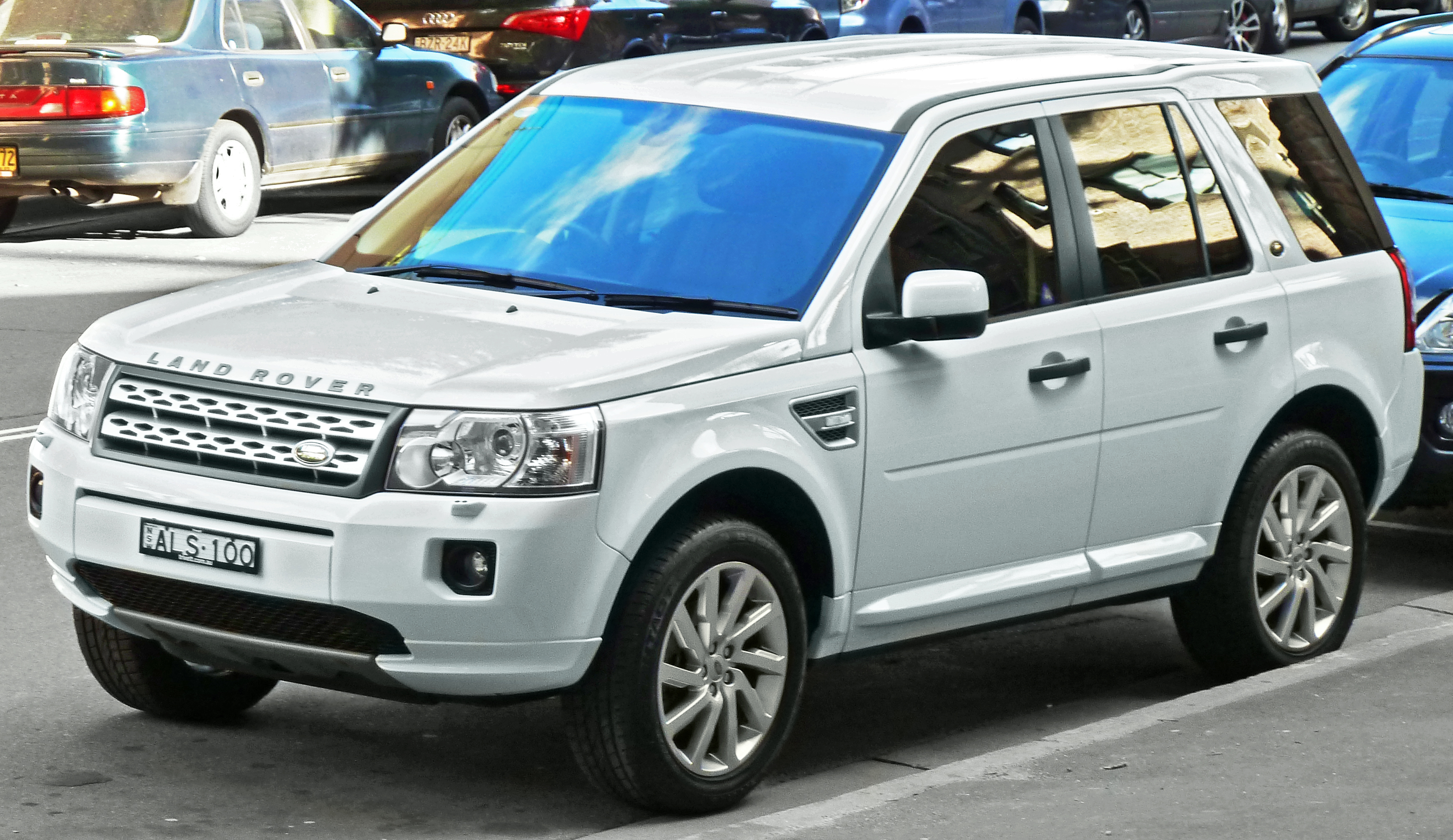 2010–2011 Land Rover Freelander 2 (LF) XS Si6 wagon. Photographed in The Rocks, New South Wales, Australia.